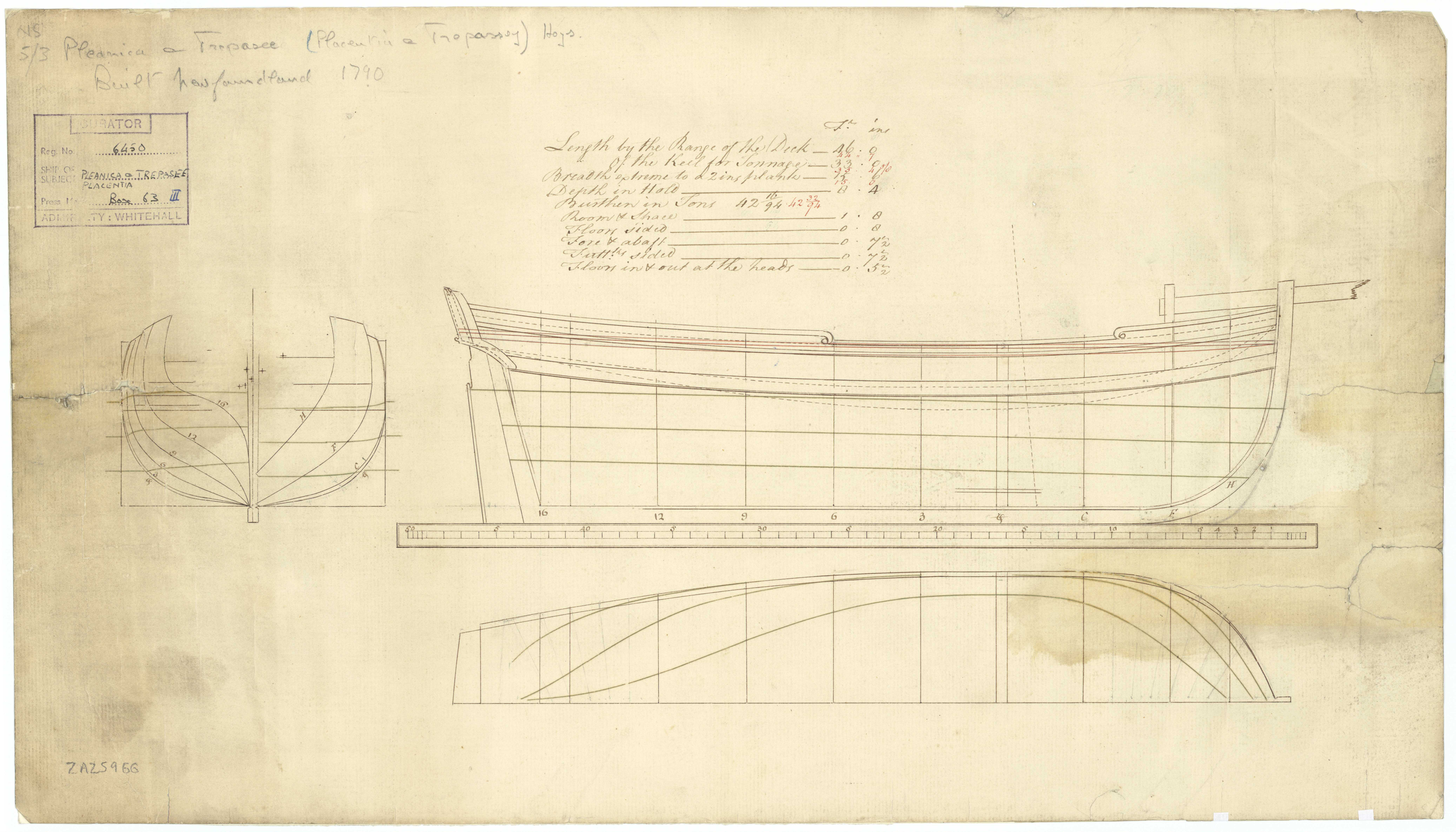 'Placenica' (1790), 'Trepassey' (1790) [alternative spellings: Pleanica, Trepassee] Scale: 1:48. A plan showing the body plan, sheer lines, and longitudinal half-breadth for 'Placentia' [Pleanica] (1790) and 'Trepassey' [Trepassee] (1790), both single-masted forty-six foot Newfoundland hoys. 'Placenica' (1790), 'Trepassey' (1790) lines